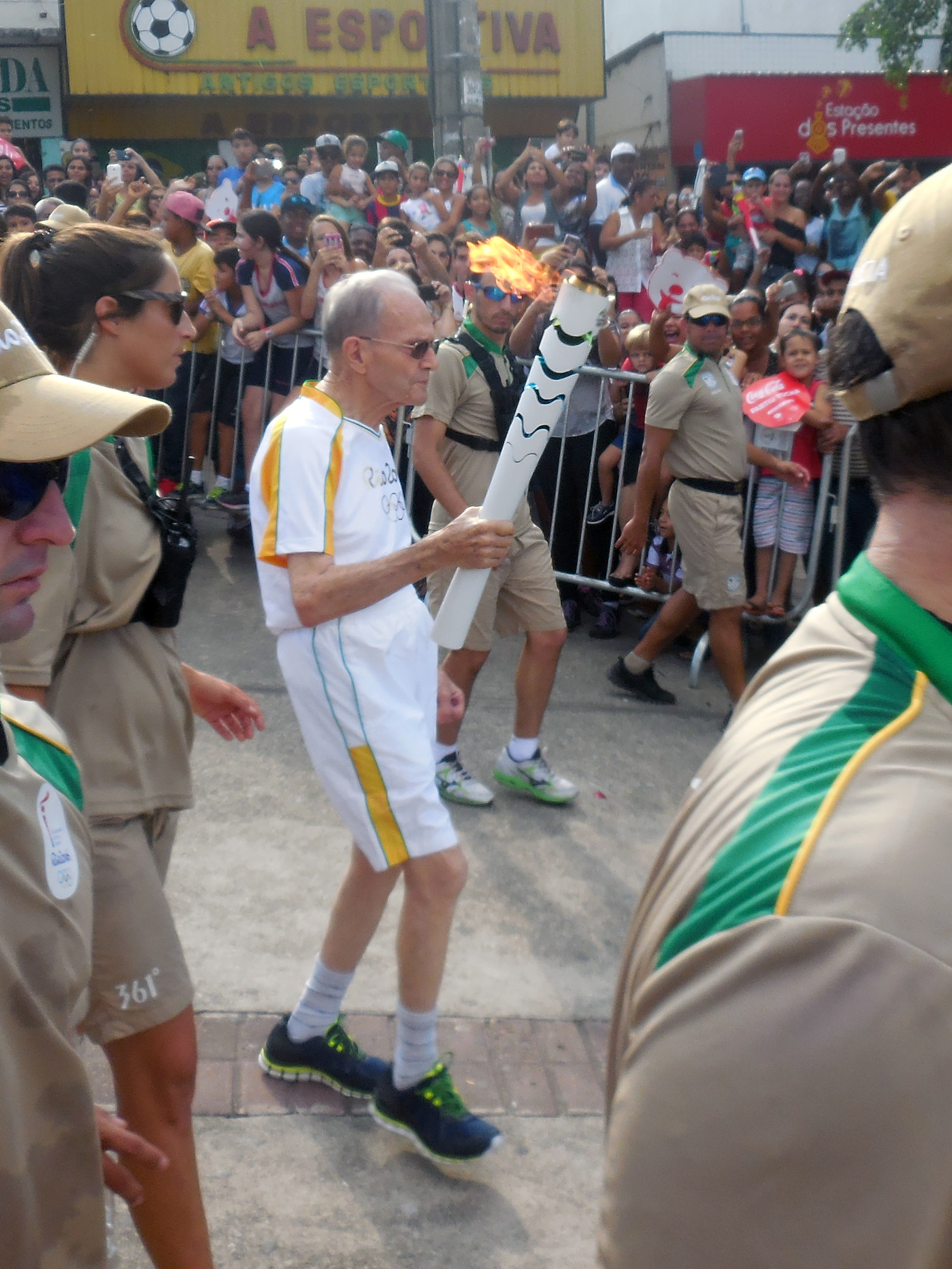 Don Lélis Lara, Bishop Emeritus of the Roman Catholic Diocese of Itabira-Fabriciano, with the olympics torch relay in Coronel Fabriciano, Minas Gerais, Brazil.